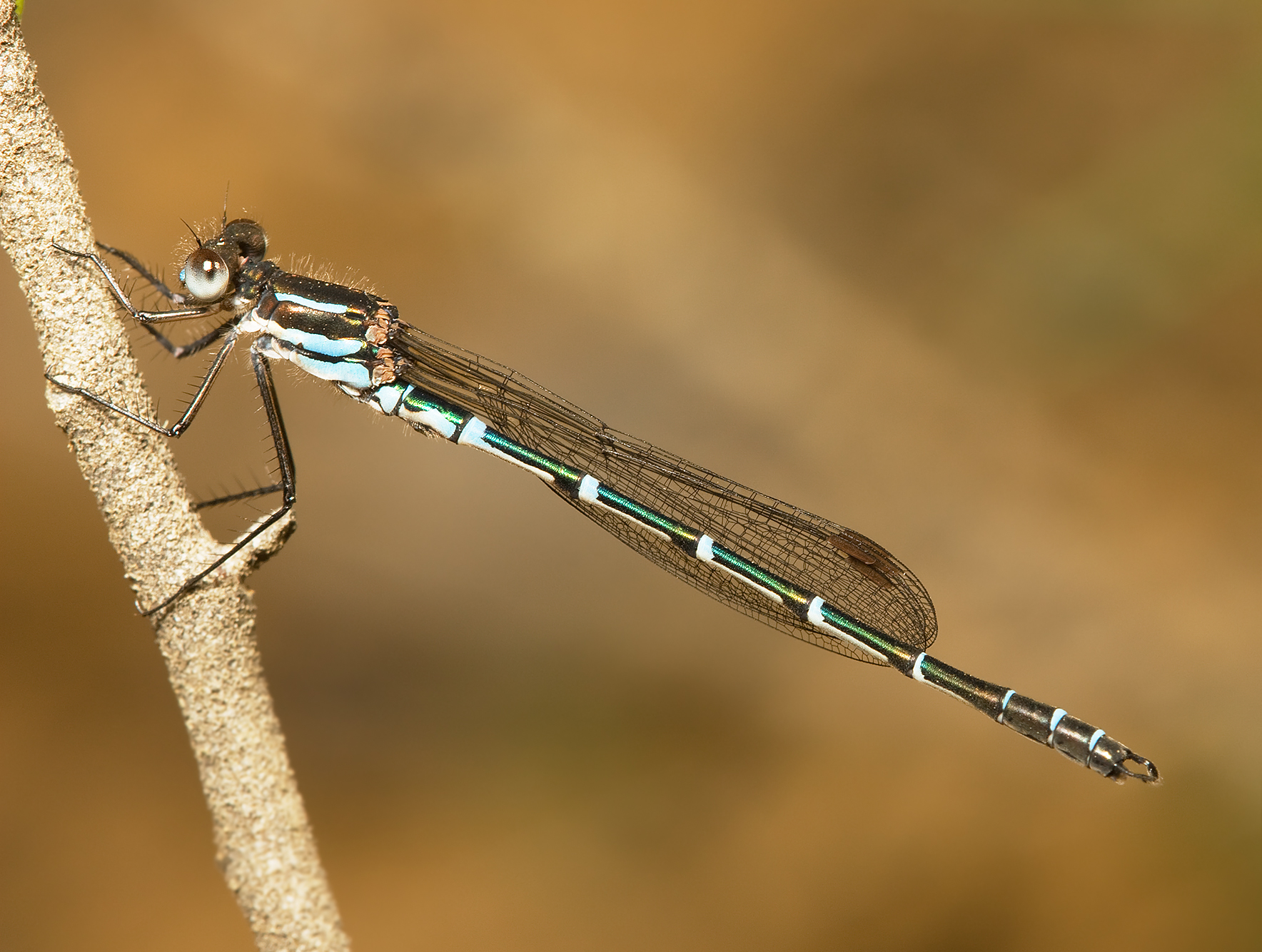 Metallic Ringtail (Austrolestes cingulatus), Peter Murrell Reserve, Tasmania, Australia